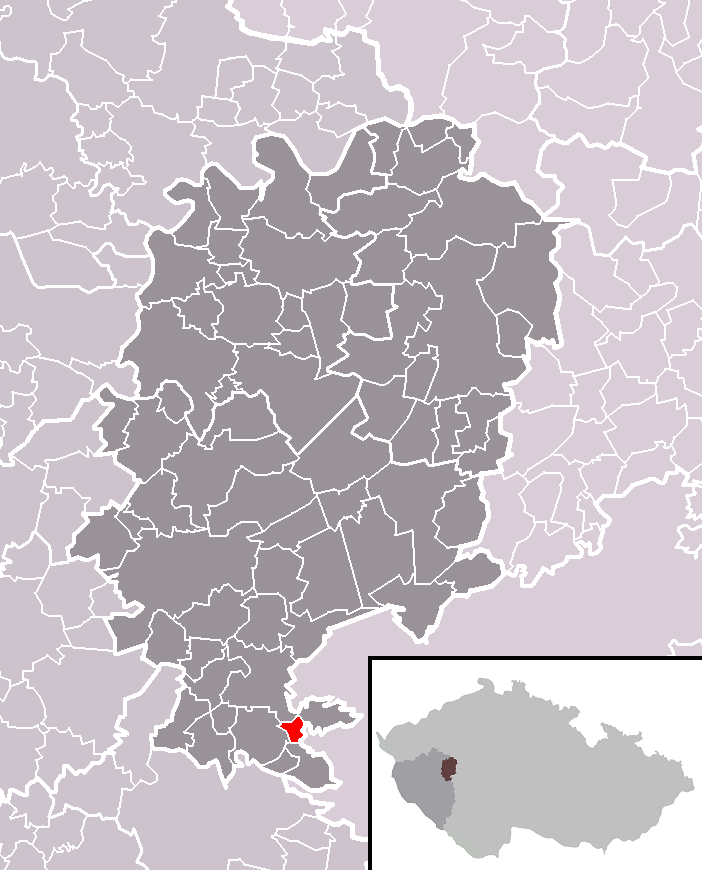 Location of Štítov municipality within Rokycany District and within identical administrative area of Rokycany as a Municipality with Extended Competence.